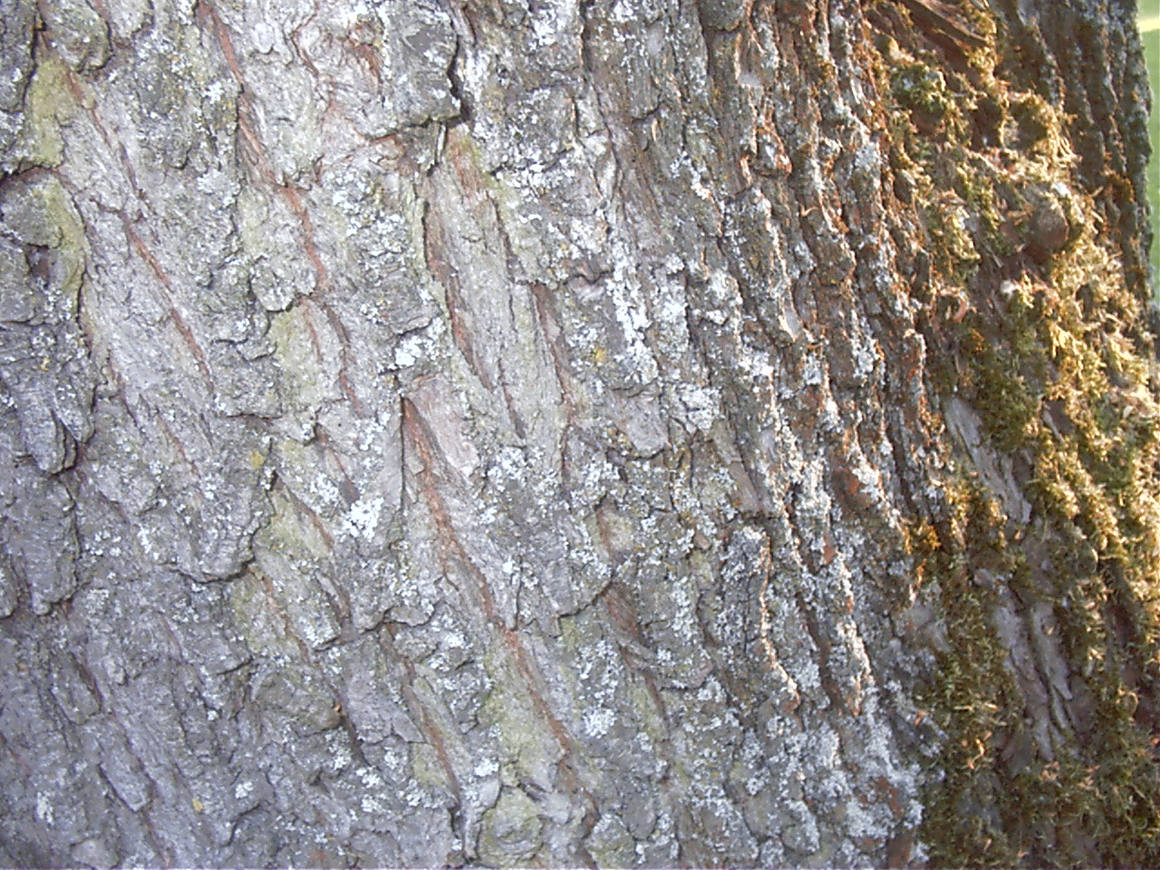 The bark of a tree